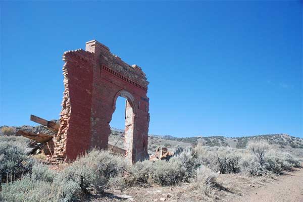 Ruins of the Wells Fargo building at the ghost town of Hamilton, Nevada. View to southwest.